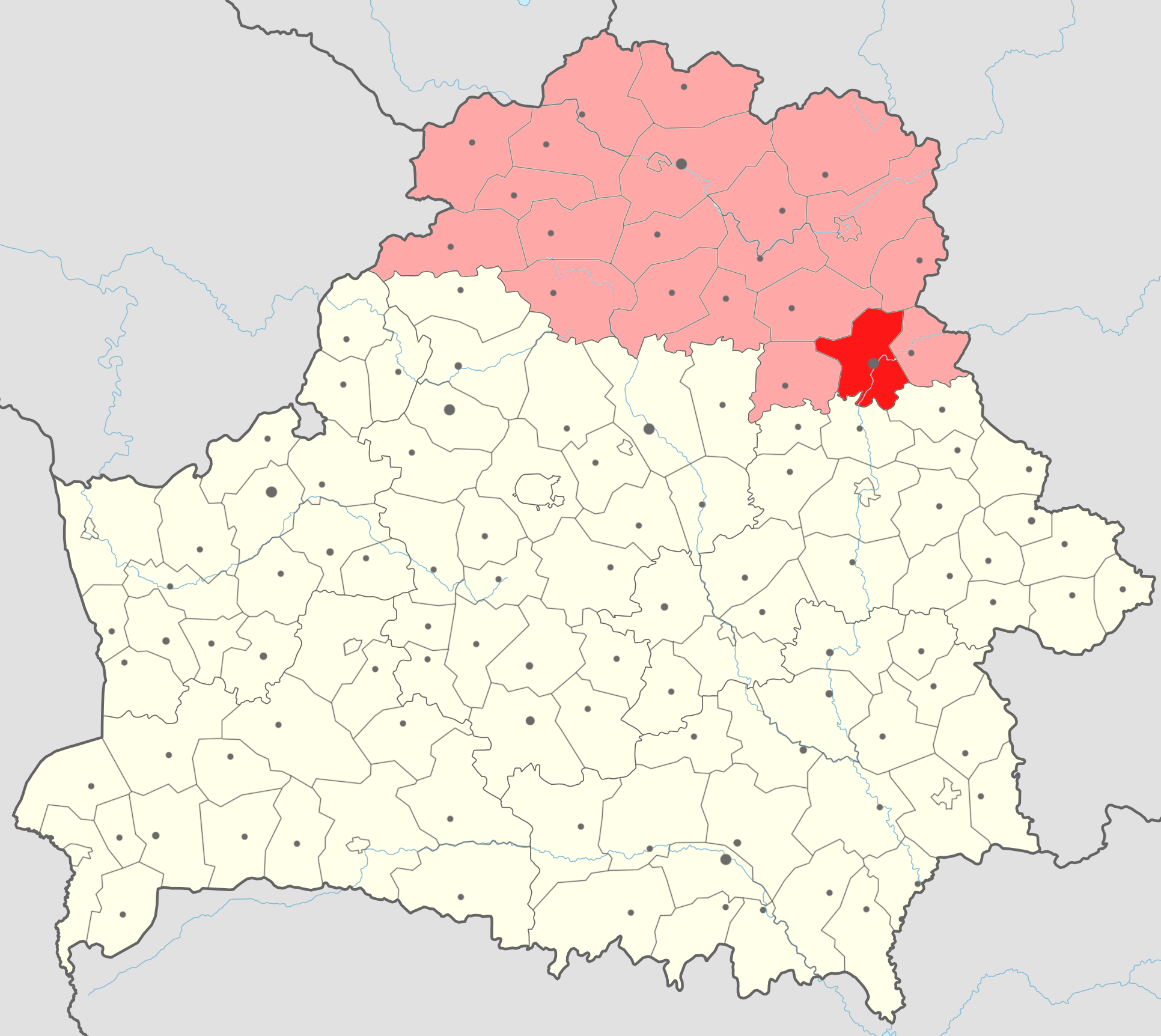 Map of Aršanski raion (in red) with Viciebskaja voblast' (in light red) on the map of Belarus.